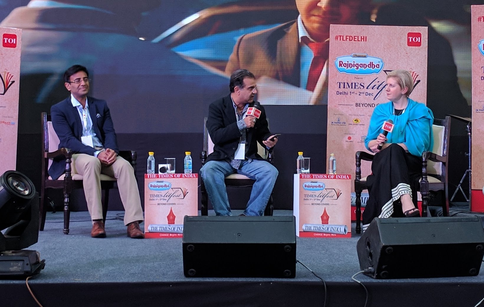 British author Clare Mackintosh during a discussion at Times LitFest 2018 in New Delhi with IPS officer Amit Lodha on left